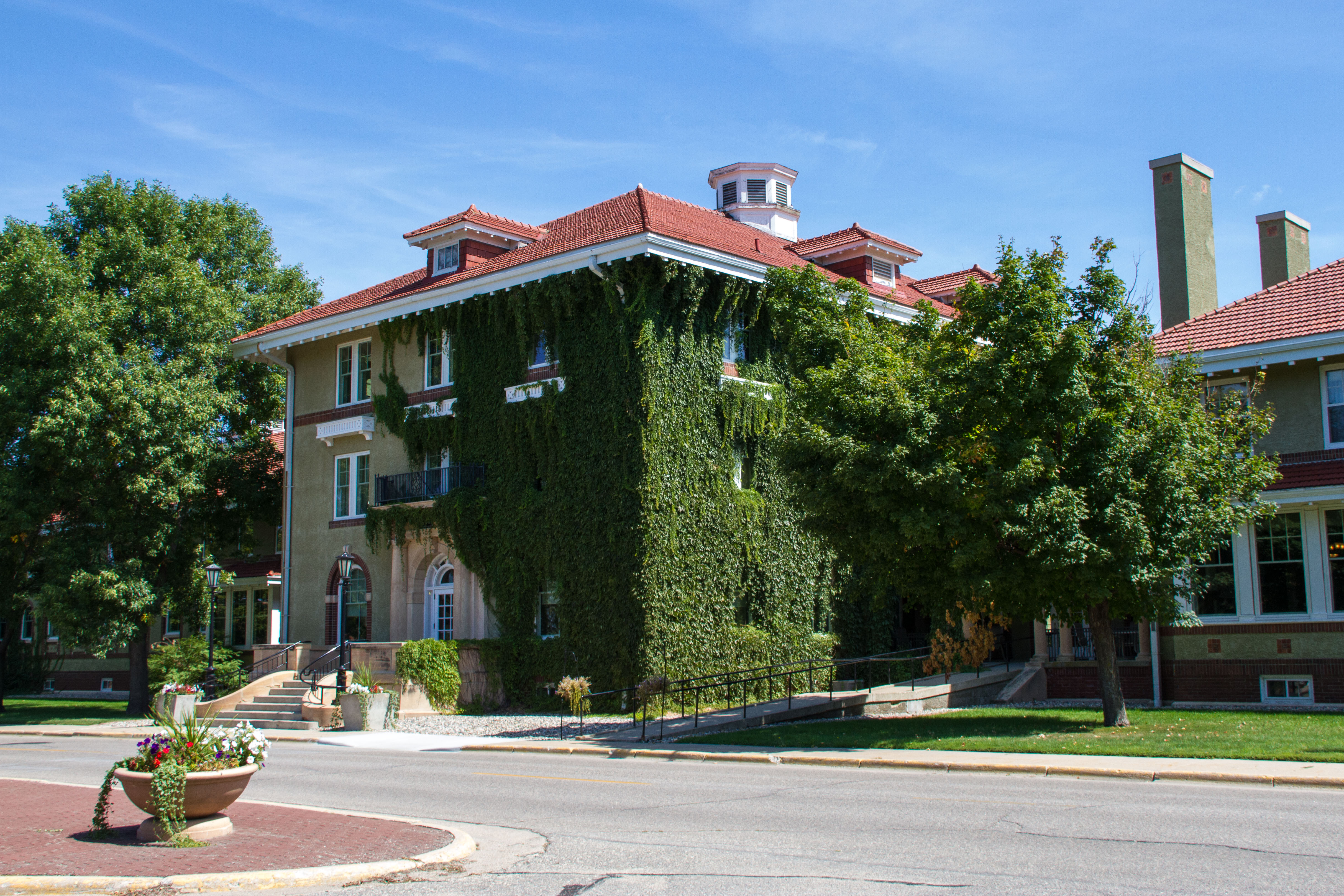 Willmar Hospital Farm for Inebriates Historic District, Willmar, Minnesota, USA.